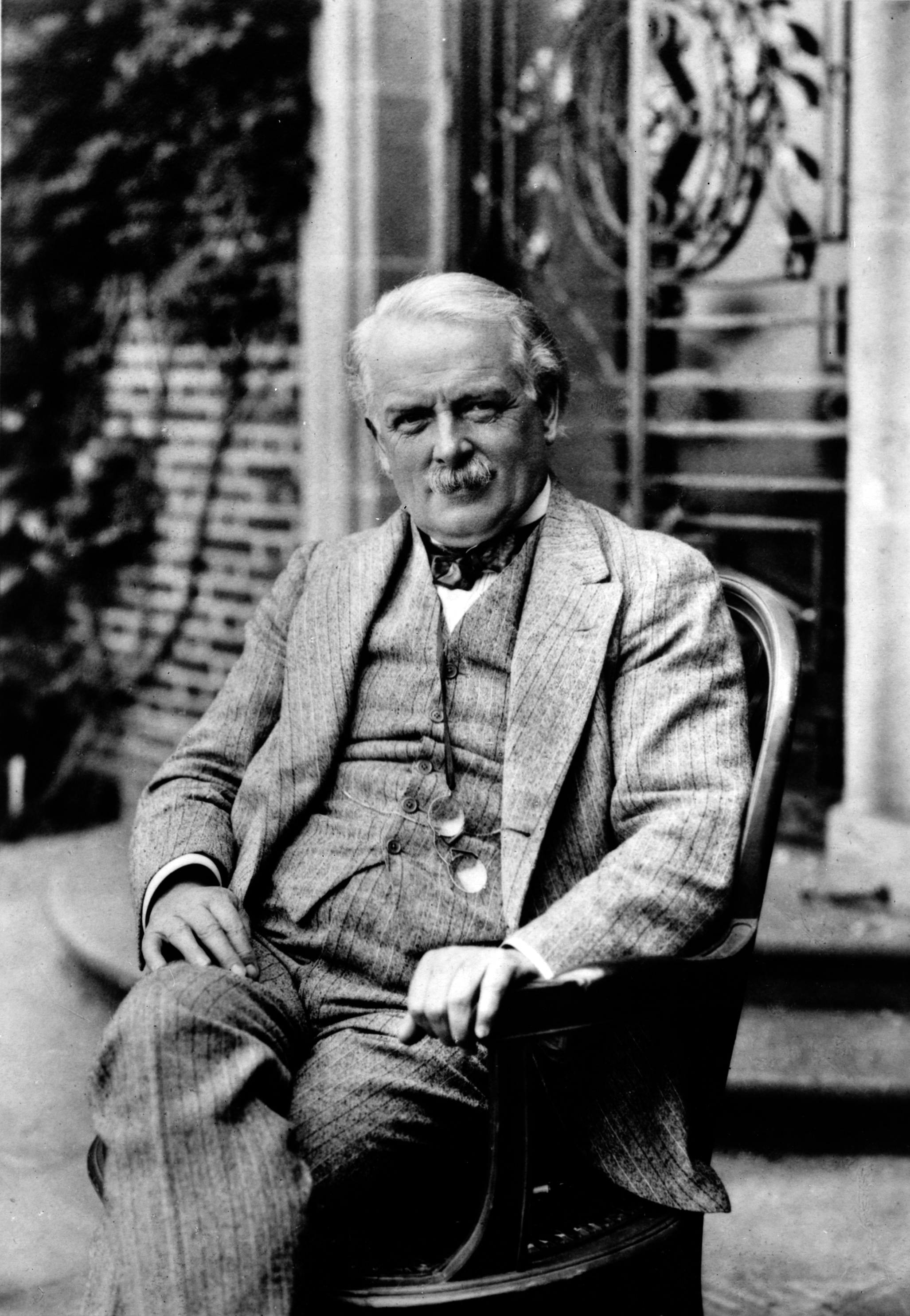 David Lloyd George, Prime Minister of the United Kingdom